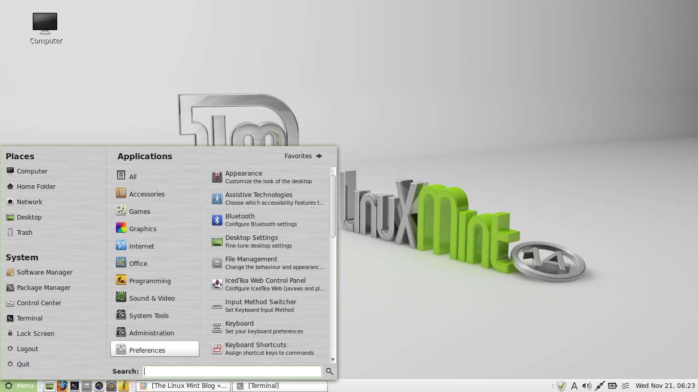 A screenshot of Linux Mint 14 Nadia with the MATE Desktop Environment.